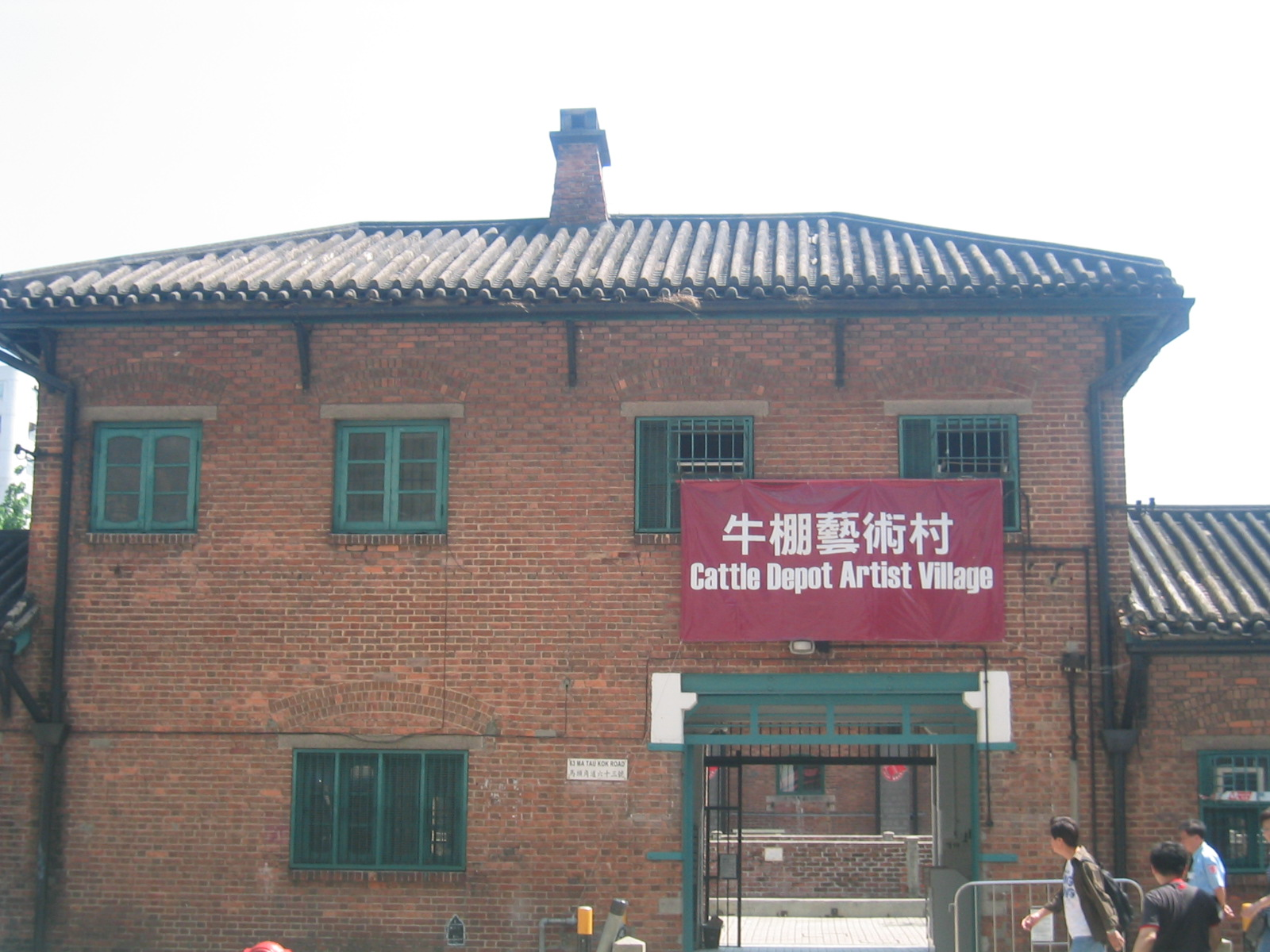 The Cattle Depot Artists Village at Ma Tau Kok, Hong Kong